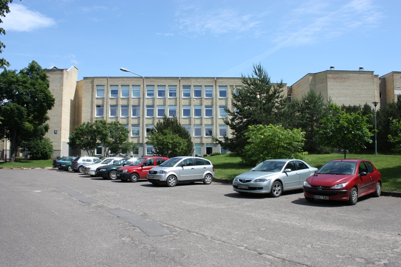 European Humanities University in Vilnius, Lithuania